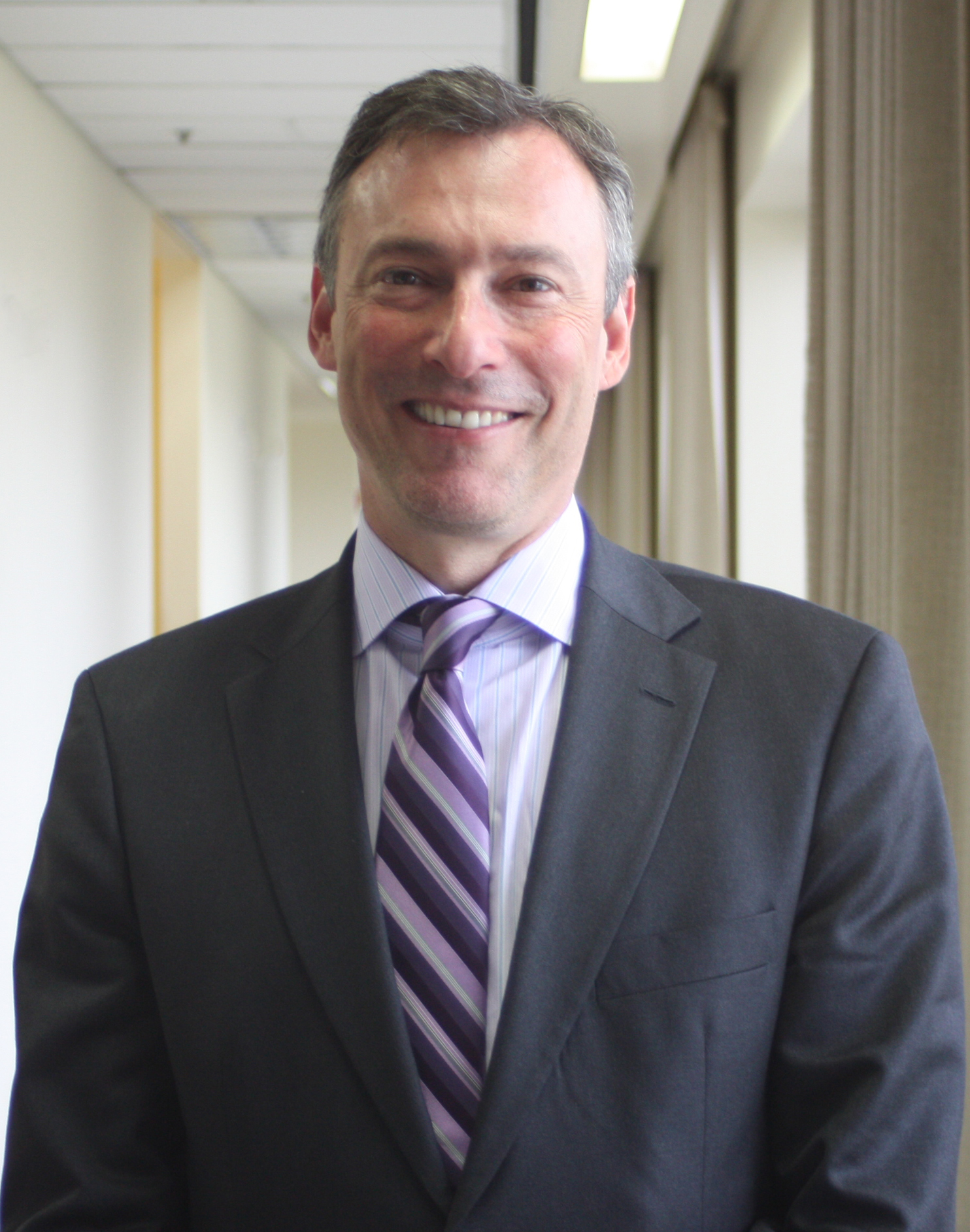 Image of Multnomah County Chair Jeff Cogen